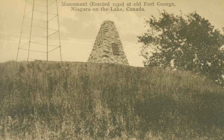 Postcard - "Monument (Erected 1930) at old Fort George, Niagara-on-the-Lake, Canada"